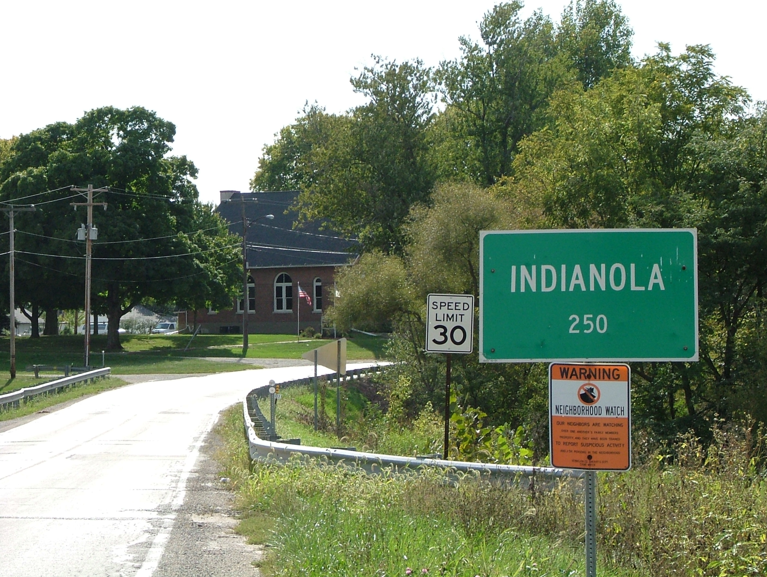 The northeast edge of Indianola, Illinois